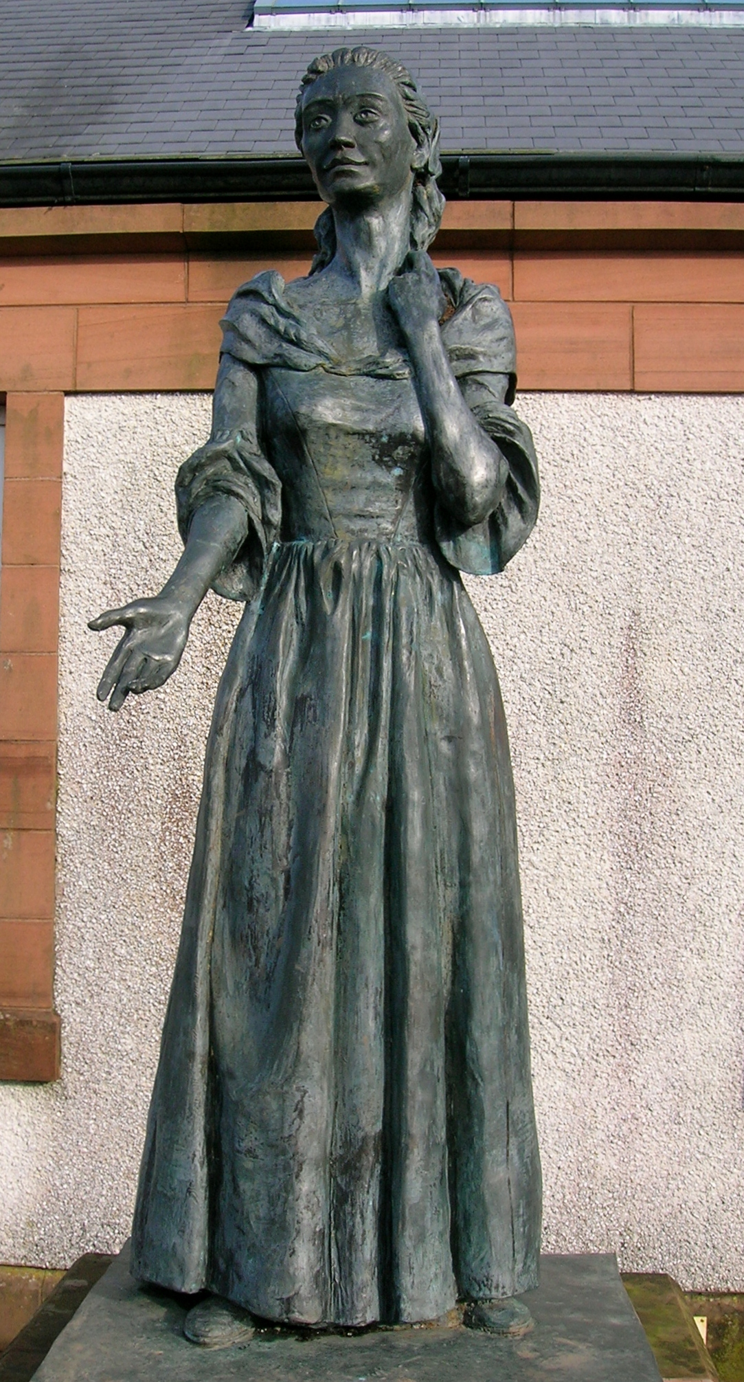 Jean Armour statue, Mauchline, East Ayrshire, Scotland